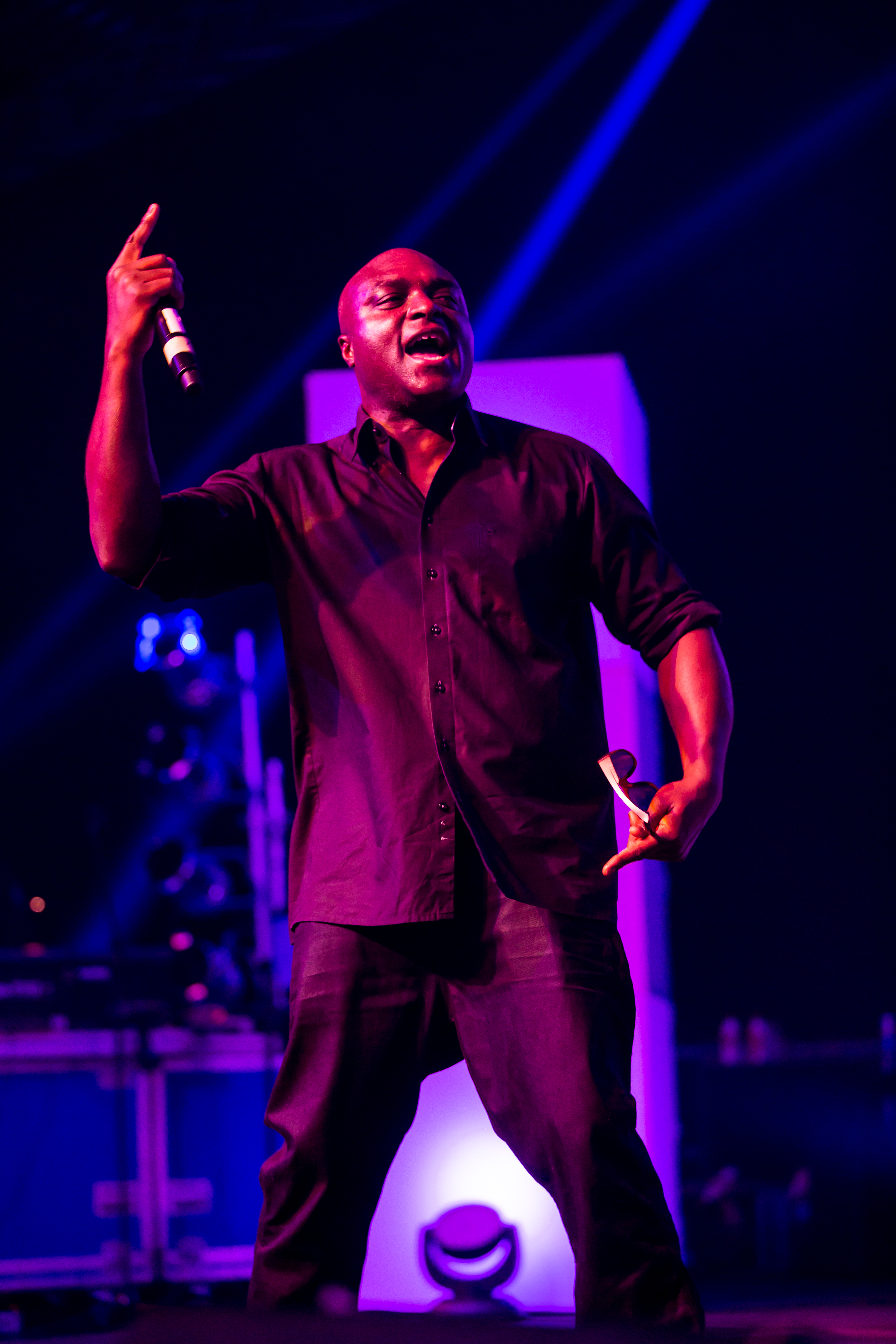 RPR1 90er Festival Maimarkthalle Mannheim Eloy, LayZee aka Mr. President, Nana, Right Said Fred, Snap! feat. Penny Ford during RPR1 90er Festival at Maimarkthalle, Mannheim, Baden-Württemberg, Germany on 2015-03-14, Photo: Sven Mandel